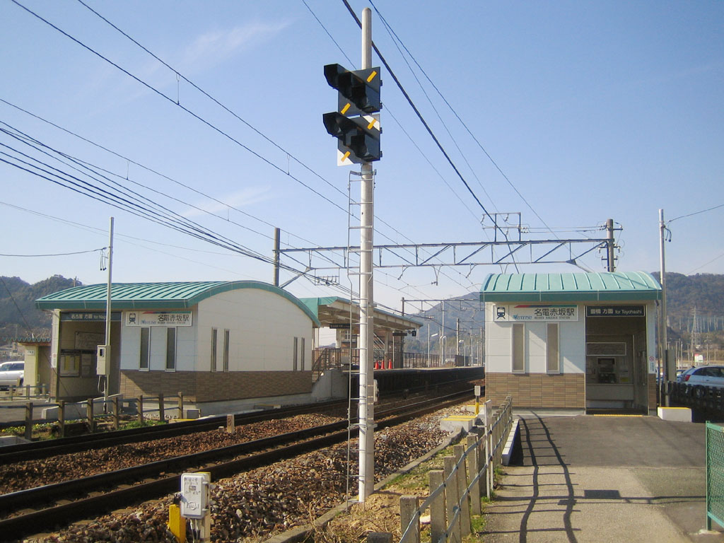 Meiden Akasaka Station (名電赤坂駅), located at Otowa, Akasaka, Toyokawa, Aichi, Japan